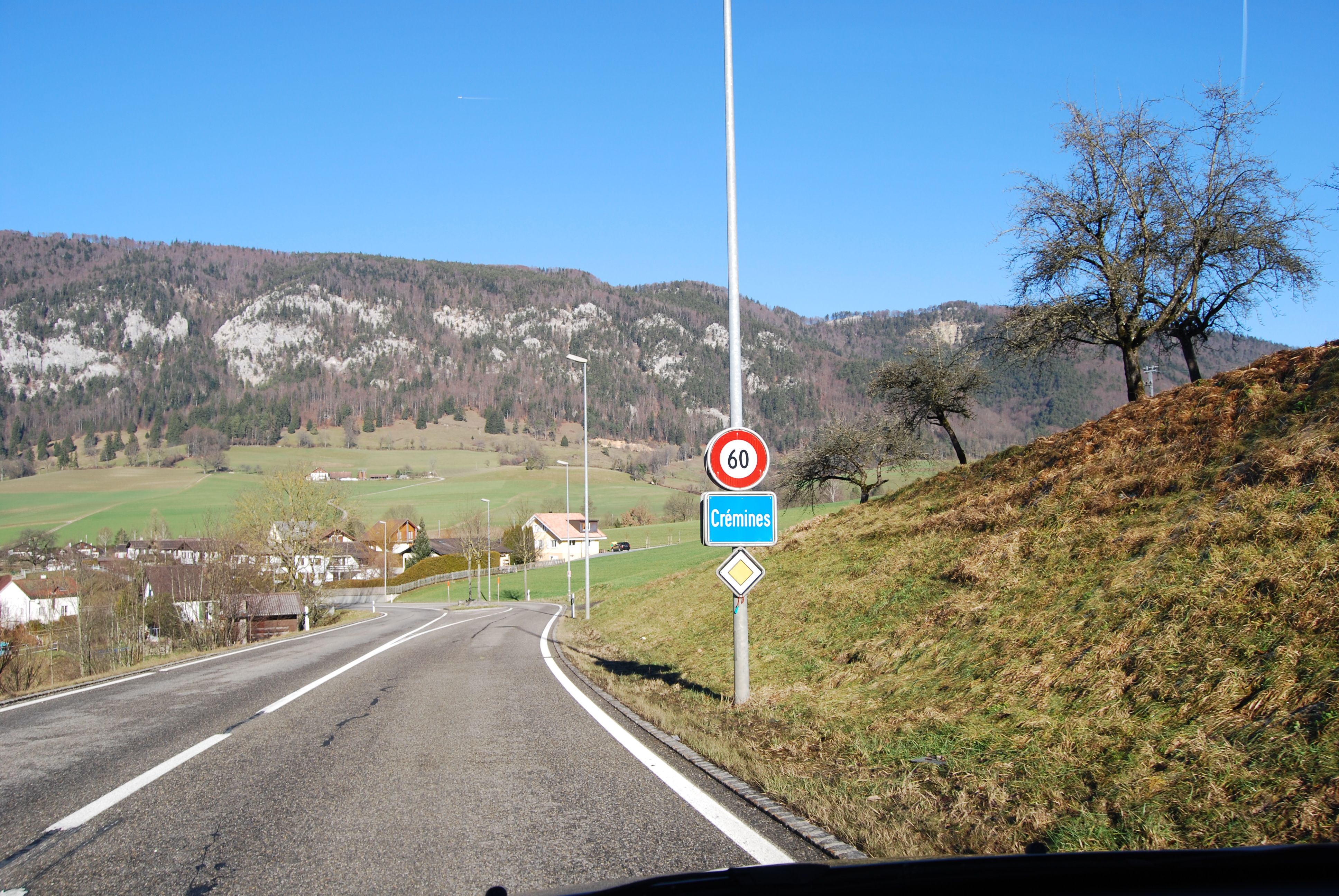 Crémines, canton of Bern, Switzerland